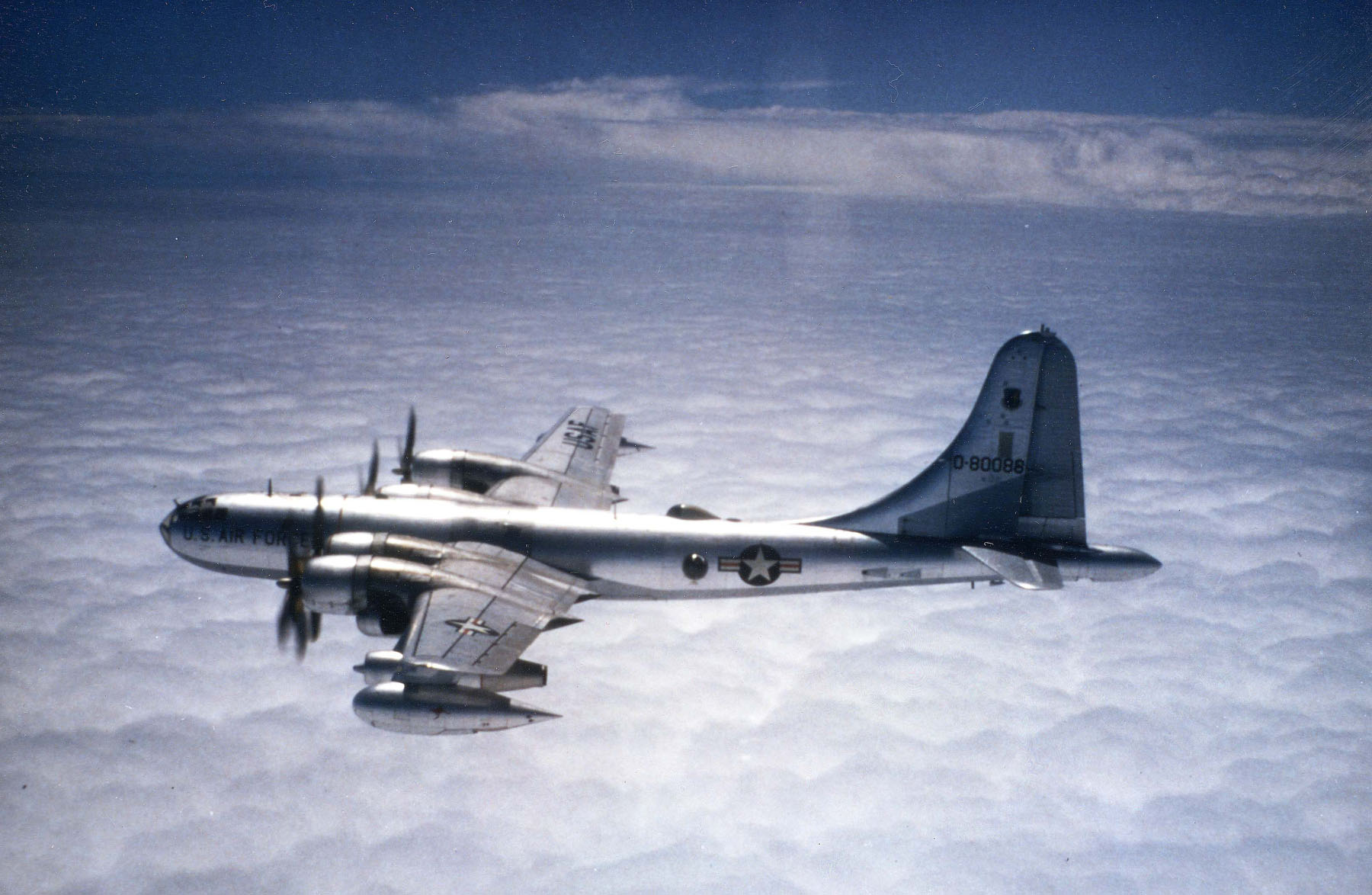 In-flight view of a Boeing KB-50J (s/n 48-0088, originally B-50D-90-BO) of the 421st Air Refueling Squadron